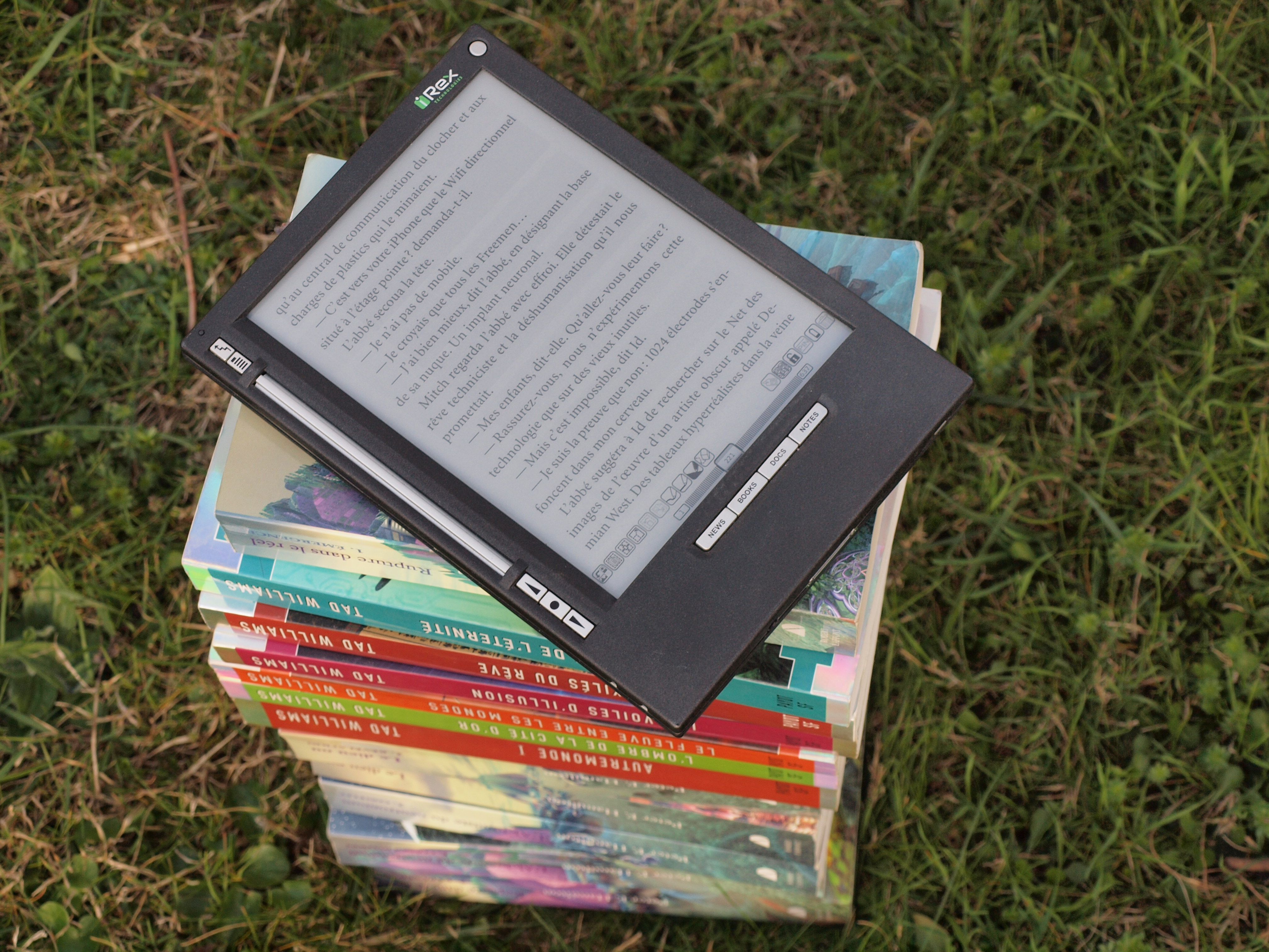 IRex iLiad ebook reader outdoors in sunlight. Electronic paper. Electrophoretic display.